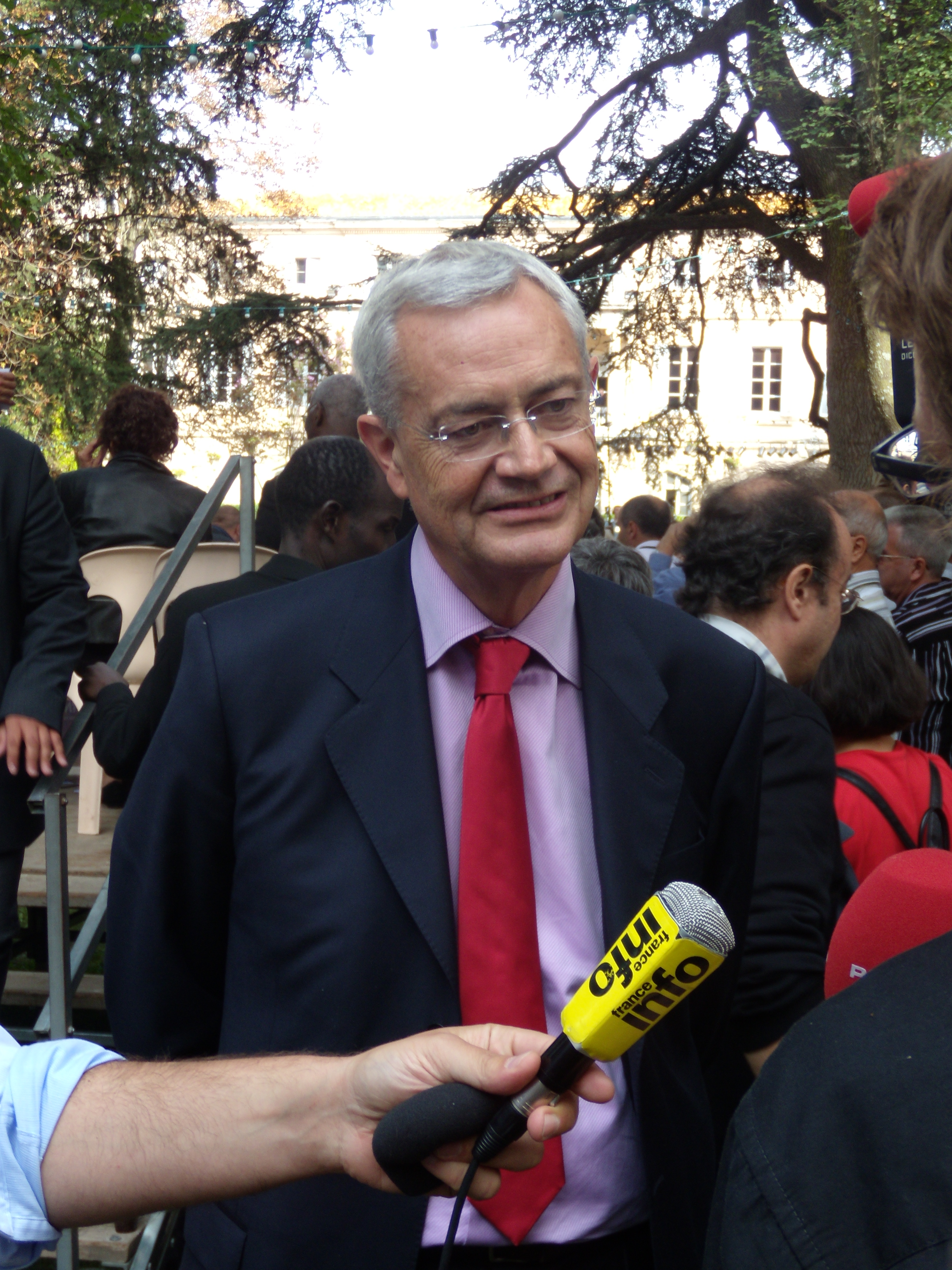 Jean-Louis Bianco during the Fête de la fraternité at Montpellier in september 2009.